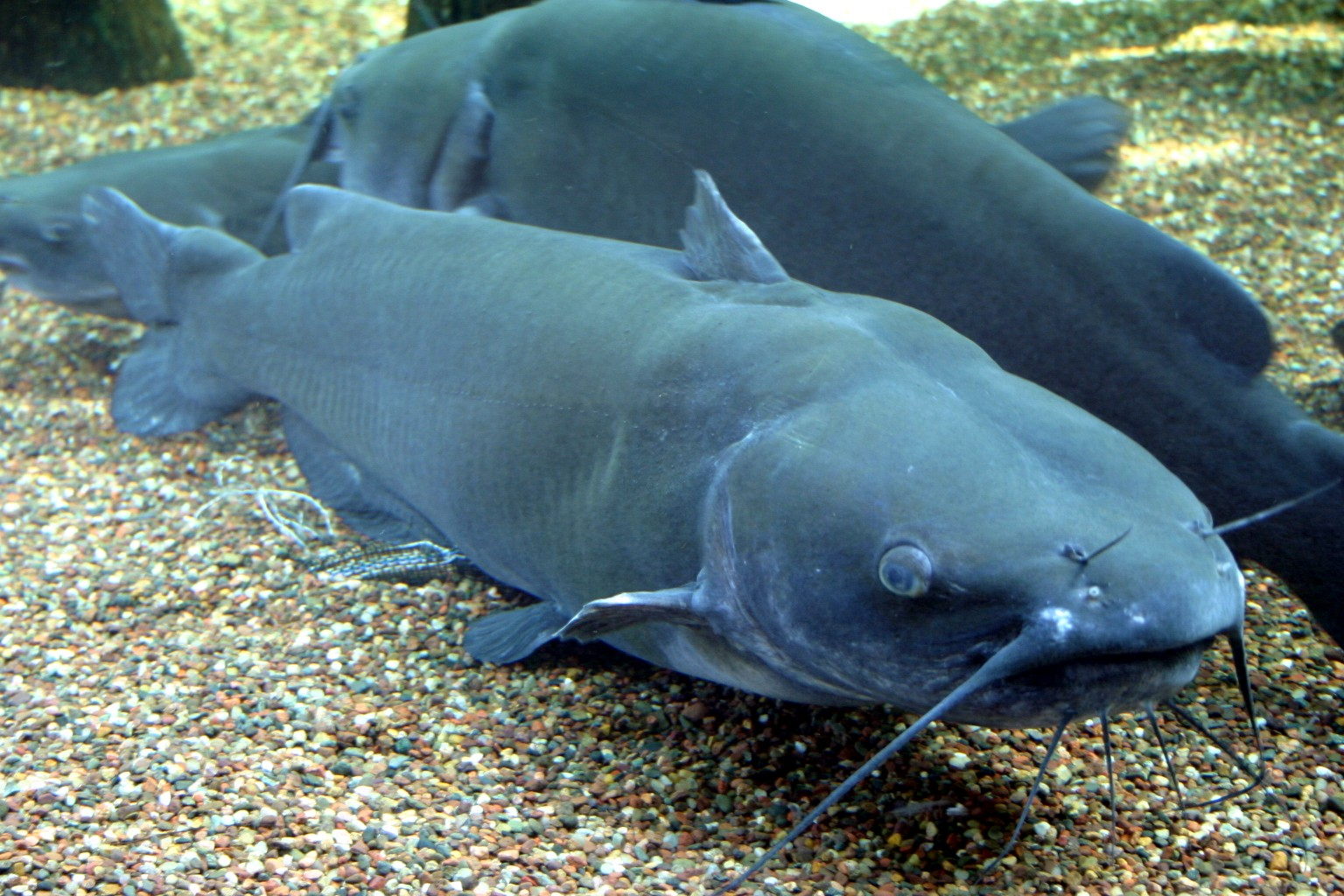 Ictalurus punctatus. Taken at the Virginia Living Museum.